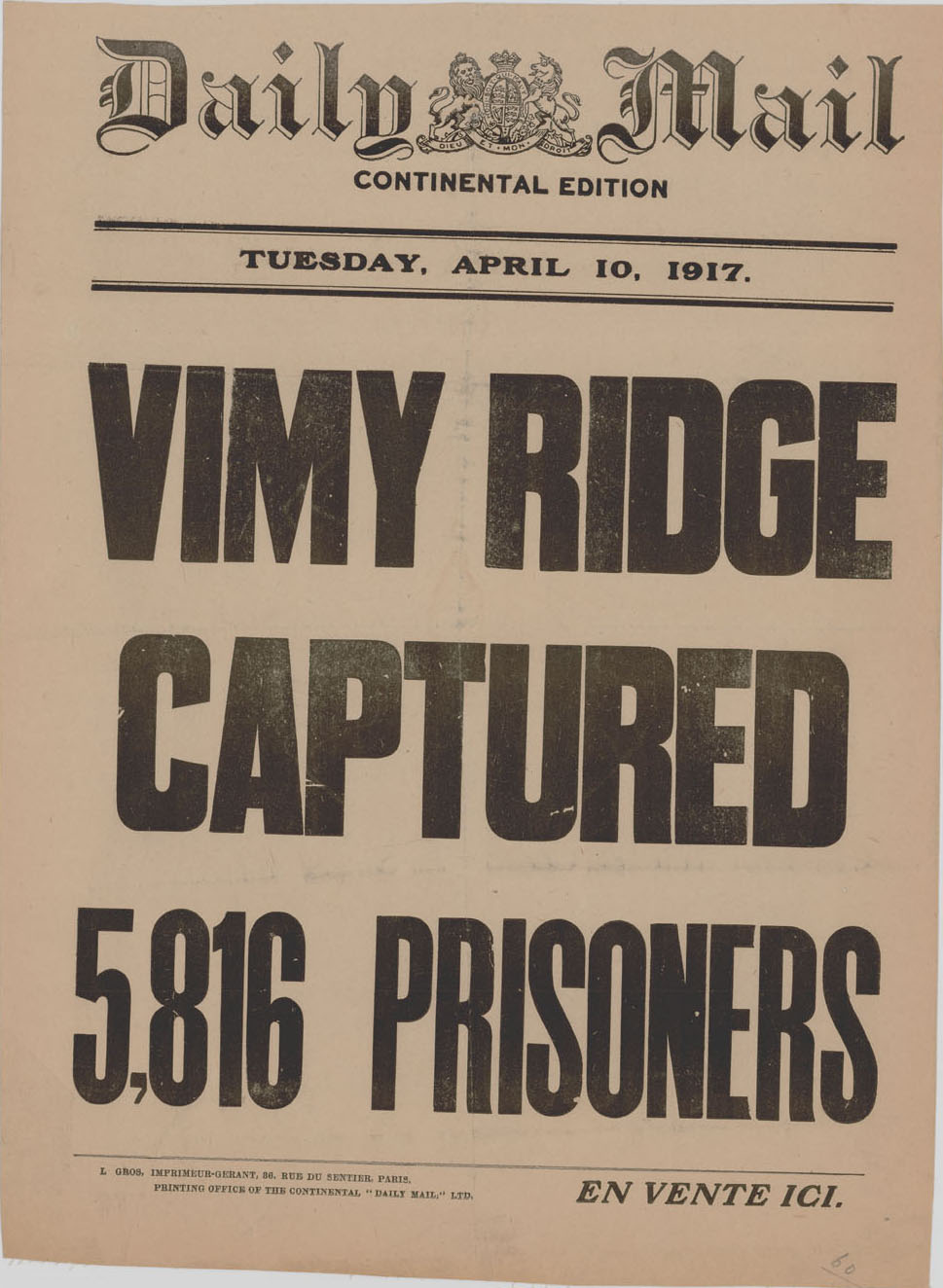 Front page, Daily Mail, Tuesday, April 10, 1917, reporting the number of German prisoners captured at Vimy Ridge